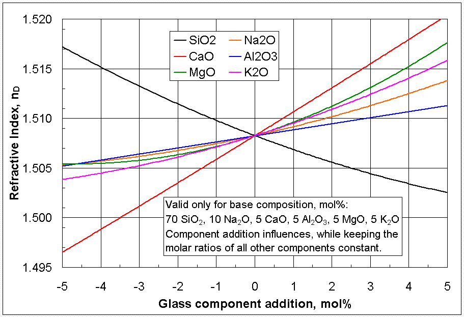 The calculation of glass properties allows "fine-tuning" of desired material characteristics, e.g., the refractive index. Please note, that the displayed diagram (also called spider-graph) is only valid for the specific base composition shown, otherwise it changes non-linearly. (Reference: Calculation of the Refractive Index of Glasses)